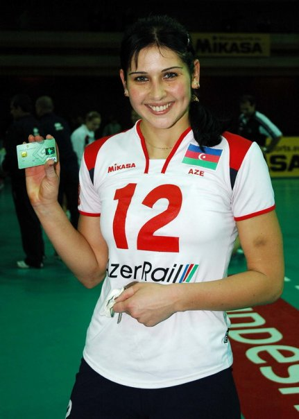 Valeriya Korotenko,Volleyball player from Azerbaijan